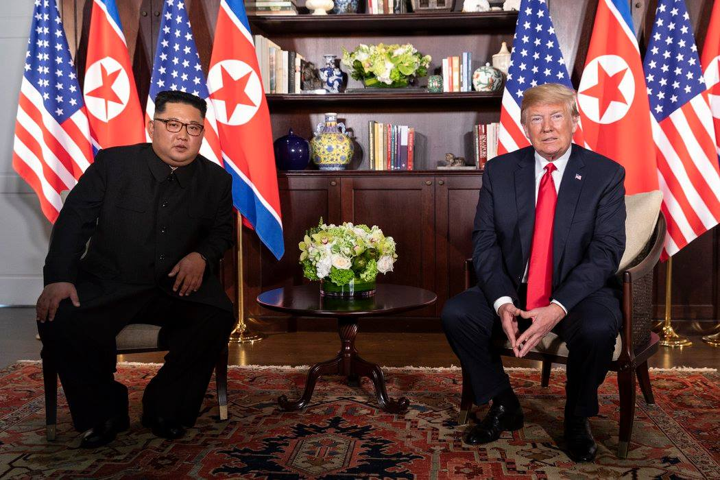 President Donald J. Trump and North Korean leader Kim Jong Un, participate in their bilateral meeting, Tuesday, June 12, 2018, at the Capella Hotel in Singapore. (Official White House Photo by Shealah Craighead)